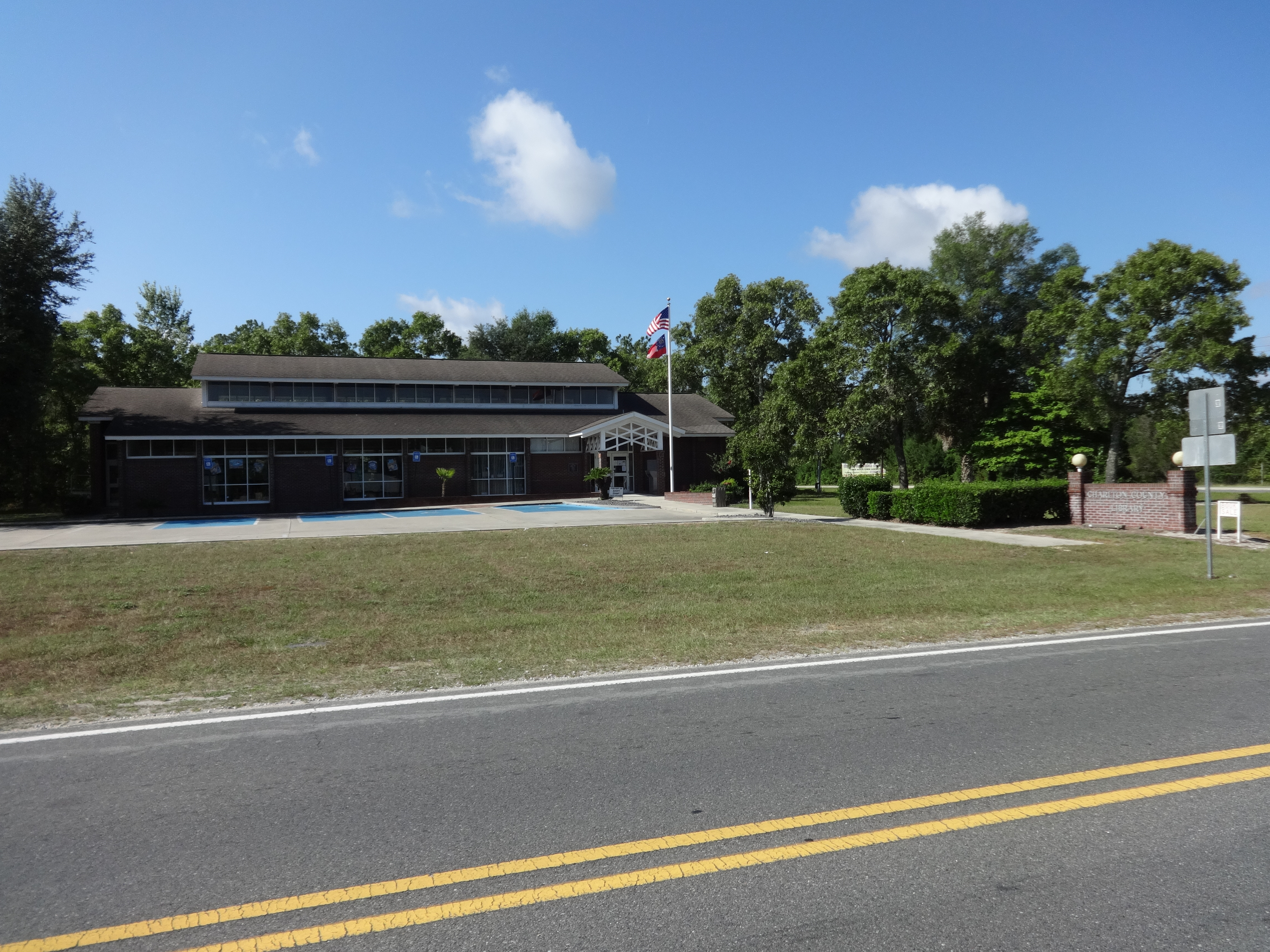 Folkston, Charlton County, Georgia